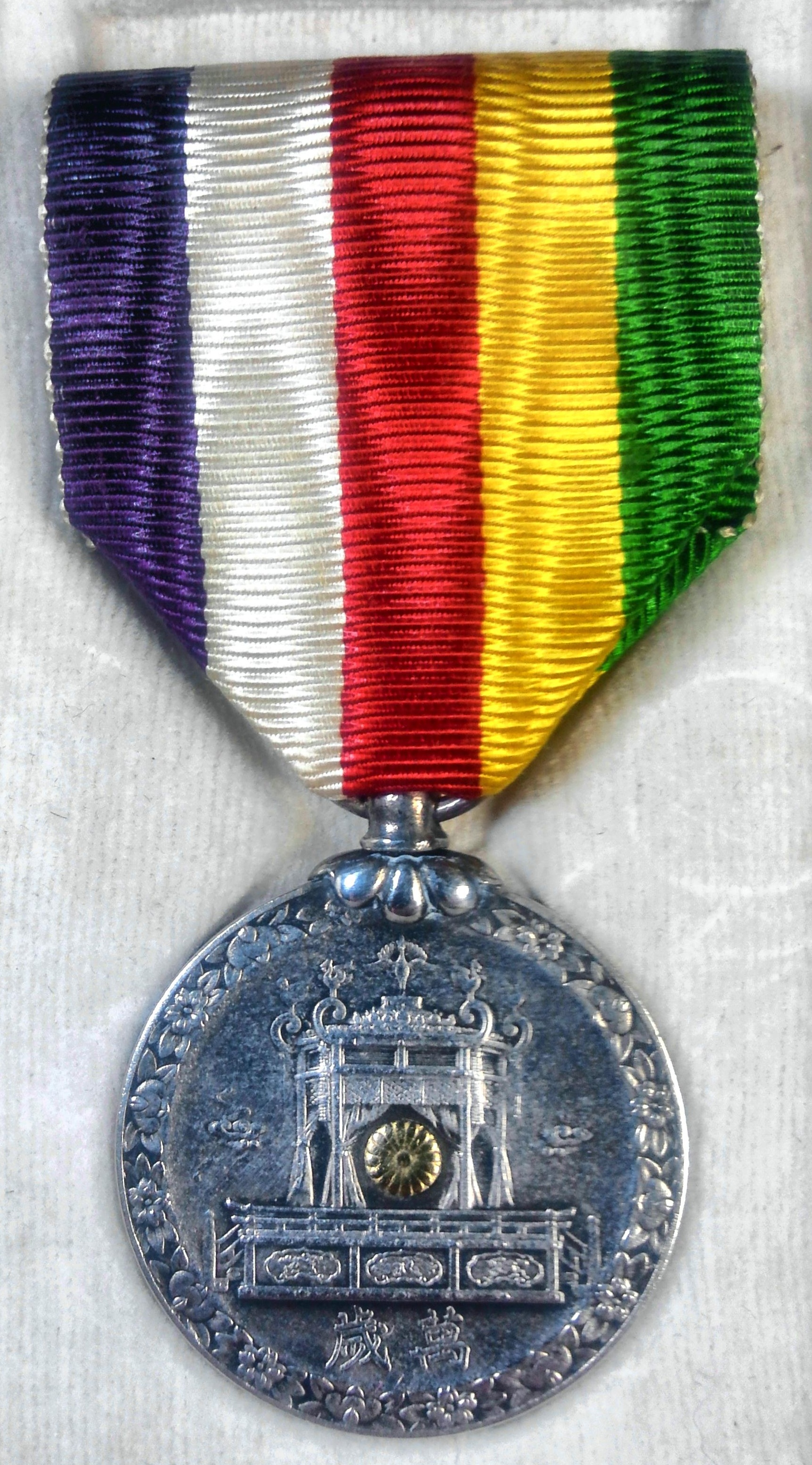 Showa Enthronement Commemorative Medal for male